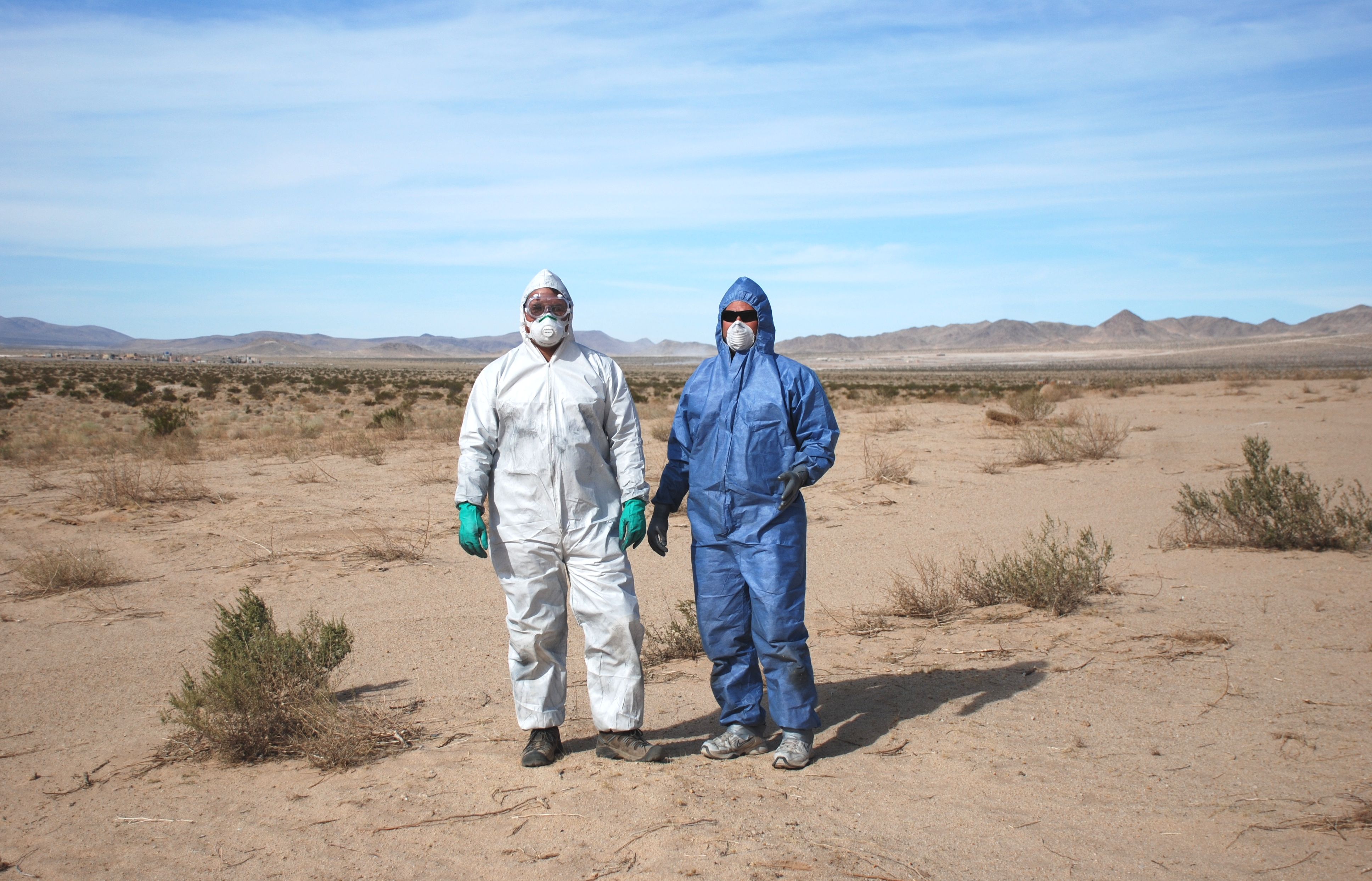 Tyvek coverall suits